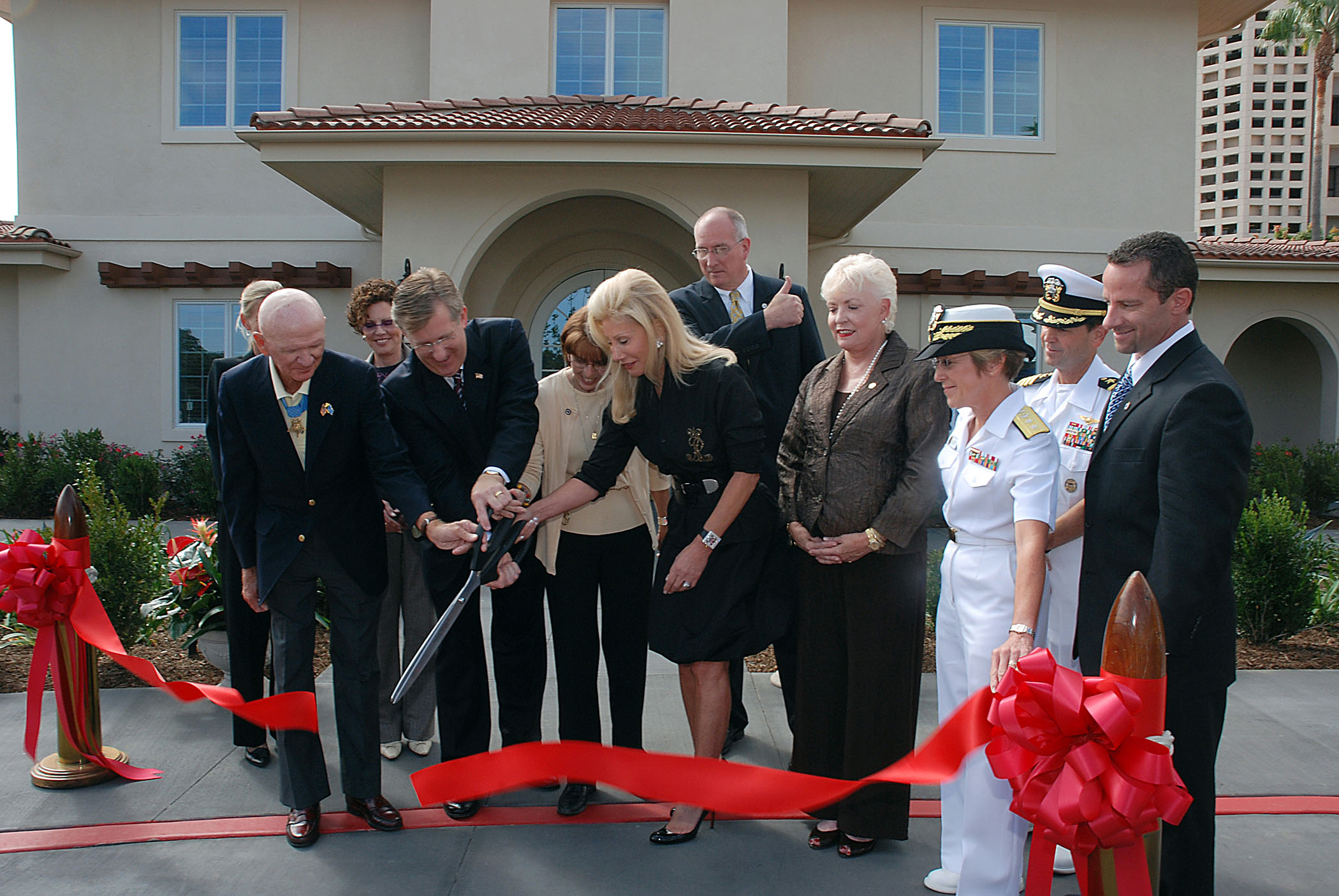 SAN DIEGO (Oct. 3, 2008) Guests cut the ribbon at Naval Medical Center San Diego for the grand opening of the second Fisher House. From left, retired U.S. Marine Corps Capt. Robert Modrrzejewski, a Medal of Honor recipient; David McIntyre, president and CEO of TriWest Healthcare Alliance and Fisher House Foundation trustee; Nicci McClearn, a former Fisher House resident, Madeleine Pickens, of the T. Boone Pickens Foundation; Belle Esposito, a Fisher House manager; commander of Naval Medical Center San Diego Rear Adm. Christine Hunter; Capt. Joe Stuyvesant, Navy Region Southwest chief of staff, and Tim Scully, director of Fisher House. Fisher Houses provide accommodations for families of active and retired military patients who have been admitted for medical care. (U.S. Navy photo by Mass Communication Specialist 2nd Class Joseph H. Moon/Released)